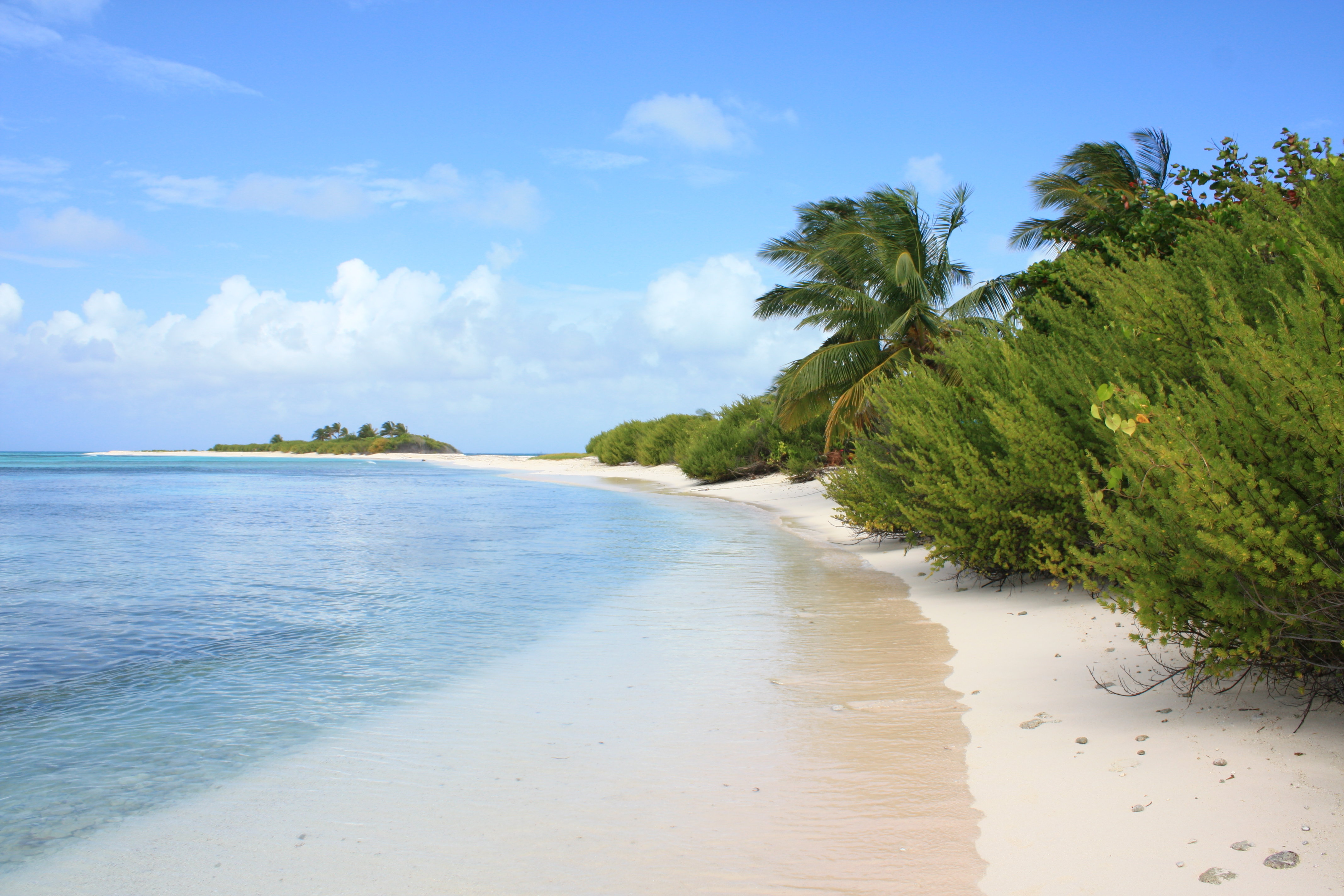 Uninhabited island Cayo Bolivar, 30 kms west of San Andres, Colombia.